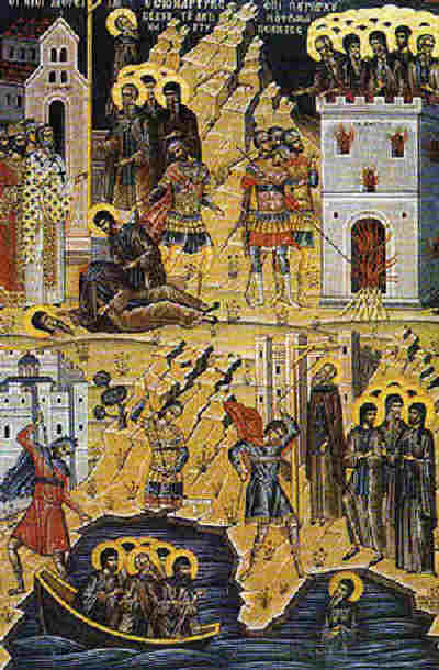 26 Zograf Martyrs